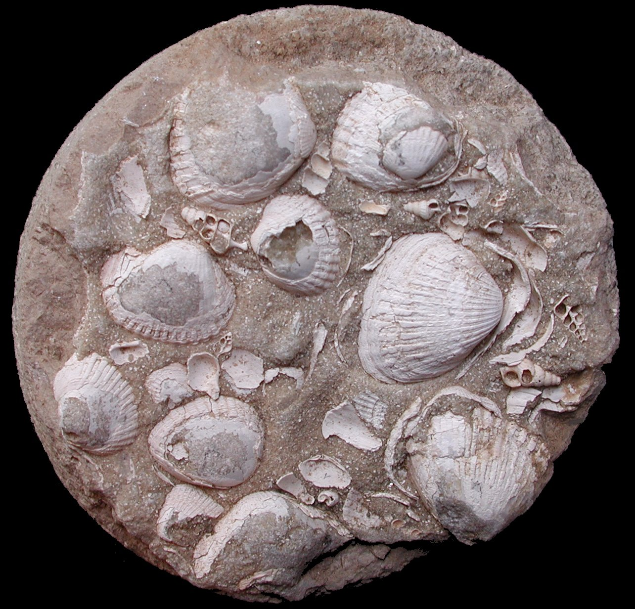 Core sample with Pliocene Cardiidae